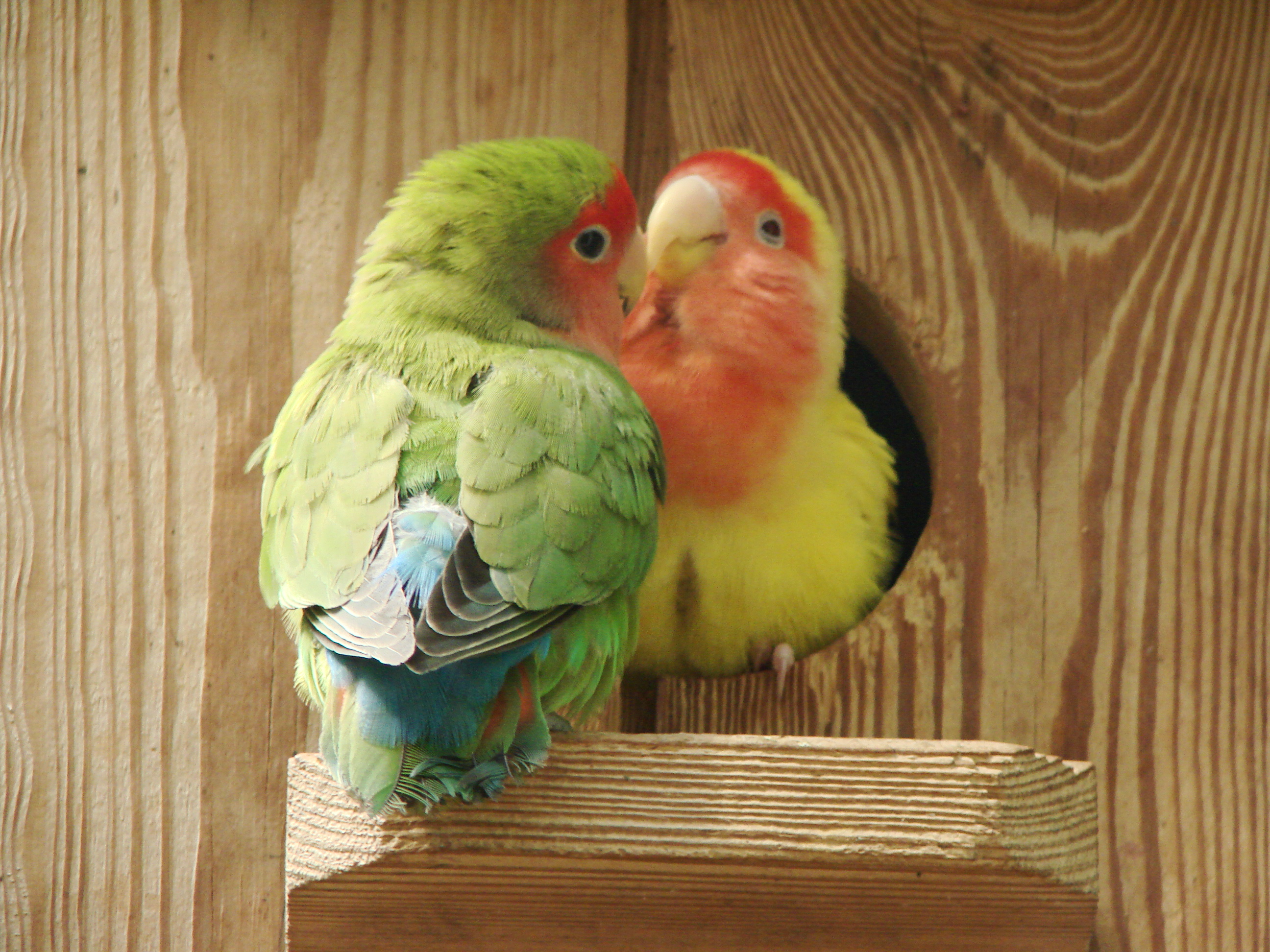 Picture taken in the zoo of Wrocław (Poland): Agapornis roseicollis (Vieillot, 1818)